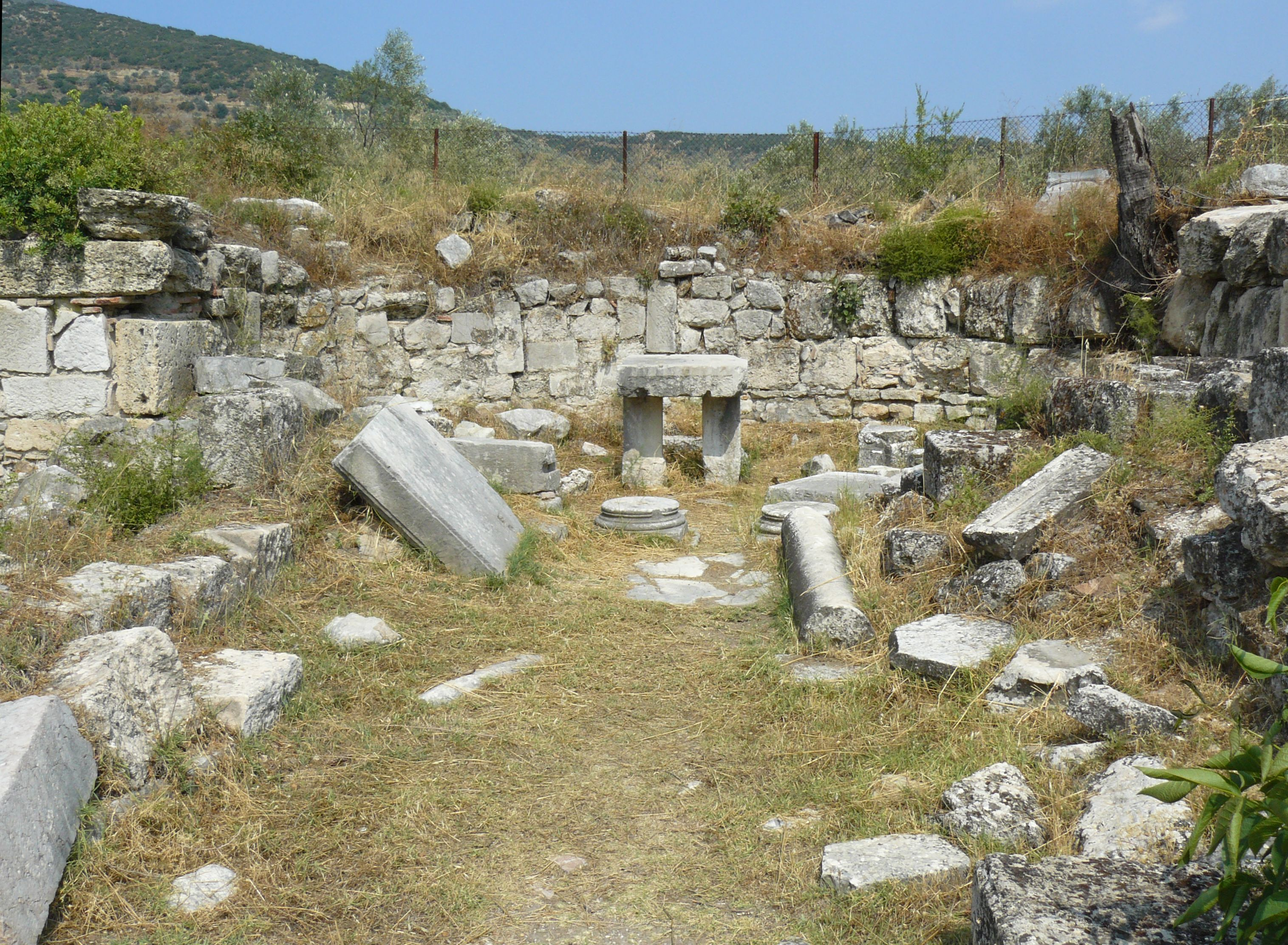 Ruins of the early Christian basilica in Epidauros, Greece - view on the altar in the apse.